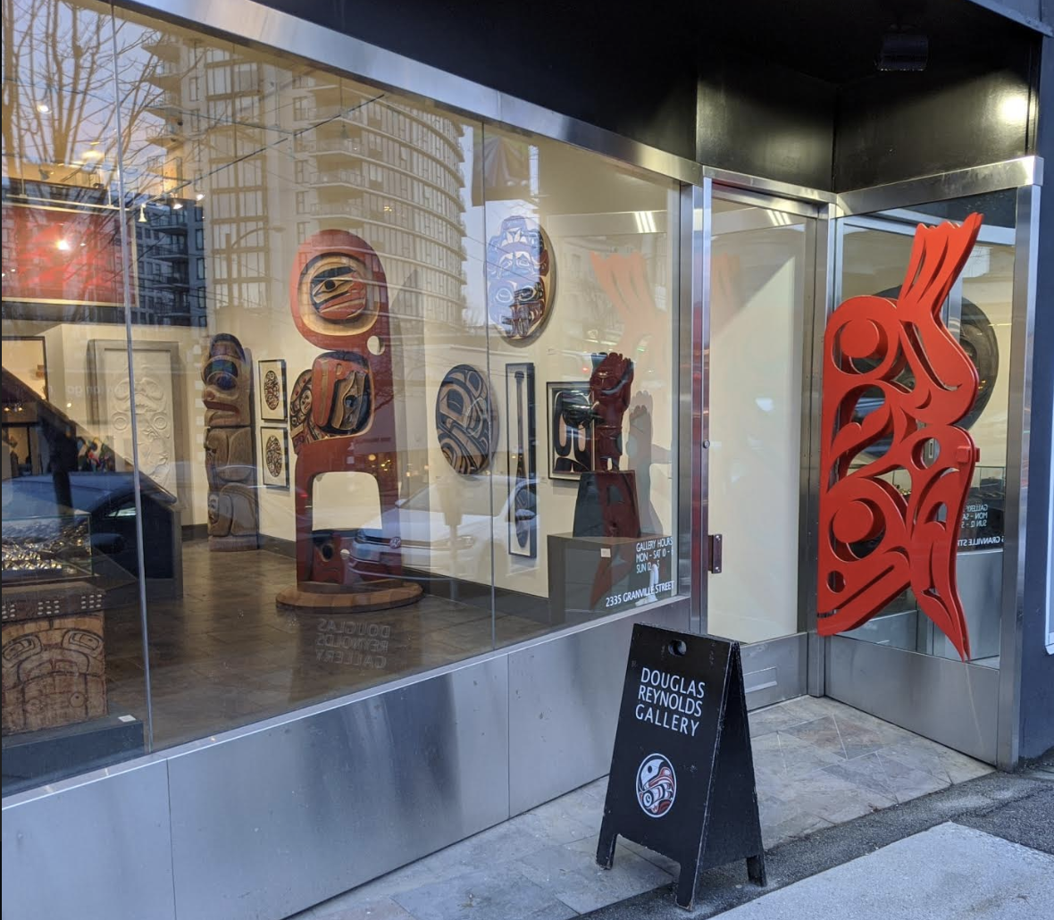 Douglas Reynolds Gallery Front View